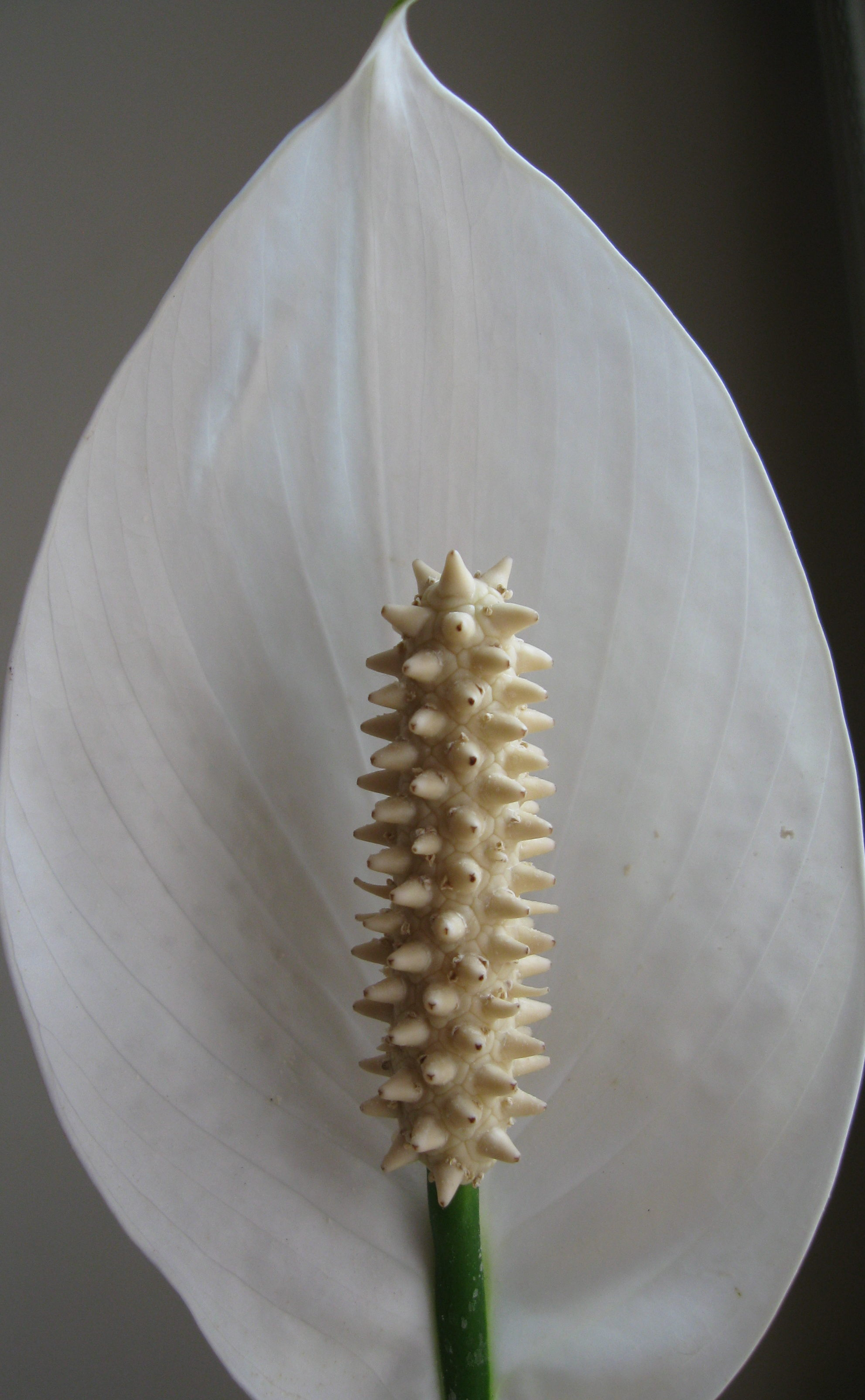 Spathiphyllum wallisii